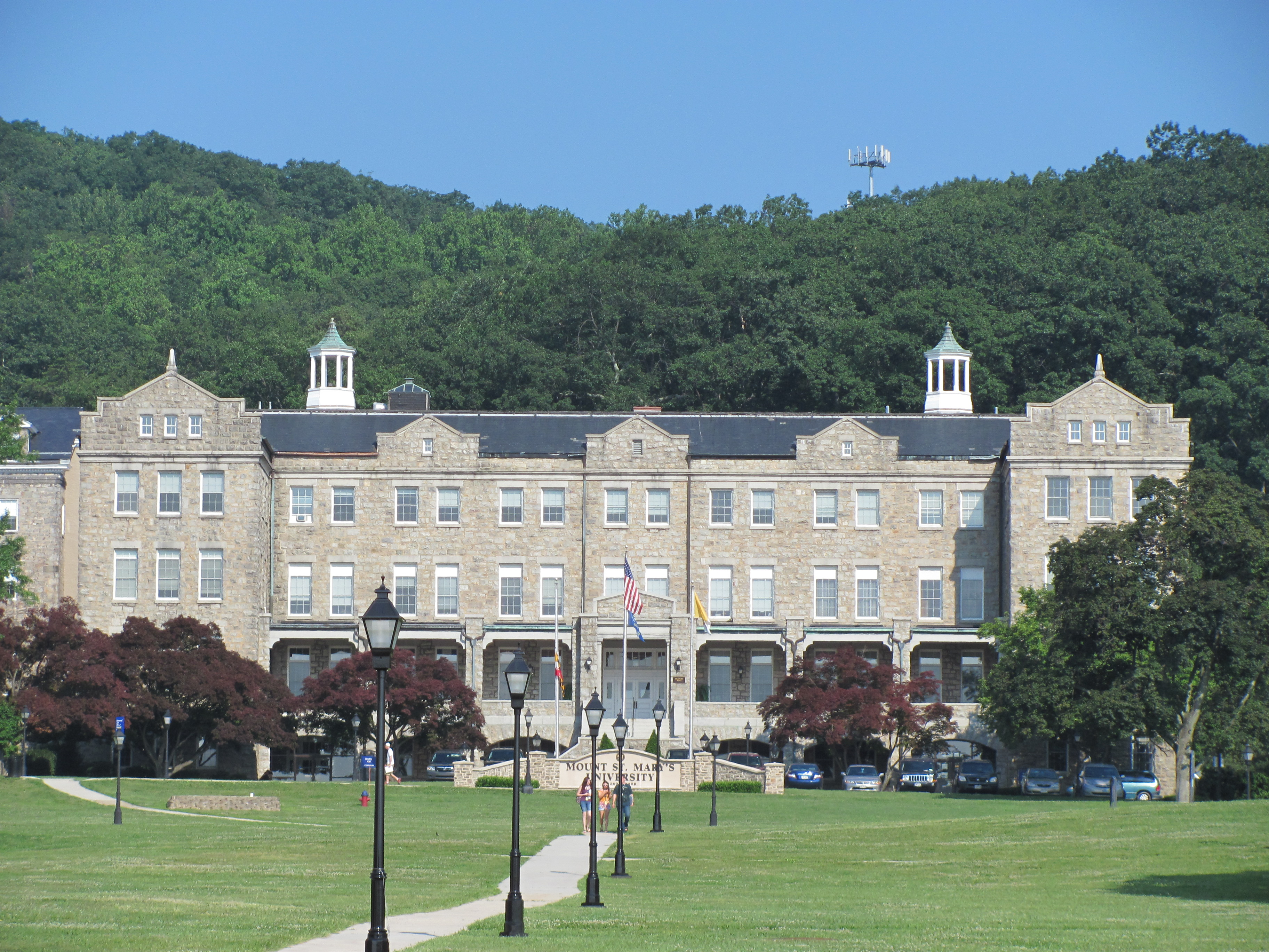 Front of Bradley Hall, at Mount St. Mary's University, Maryland